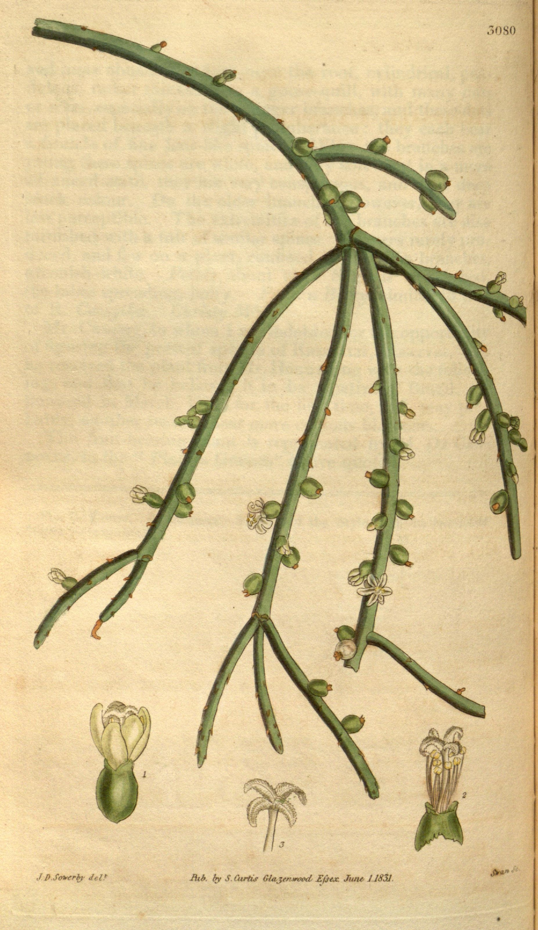 Rhipsalis cassytha Gaertn. = Rhipsalis baccifera (J.S.Muell.) Stearn J. D. Sowerby delt. Pub. by S. Curtis Glazenwood Essex. June 1.1831. Swan Sc.